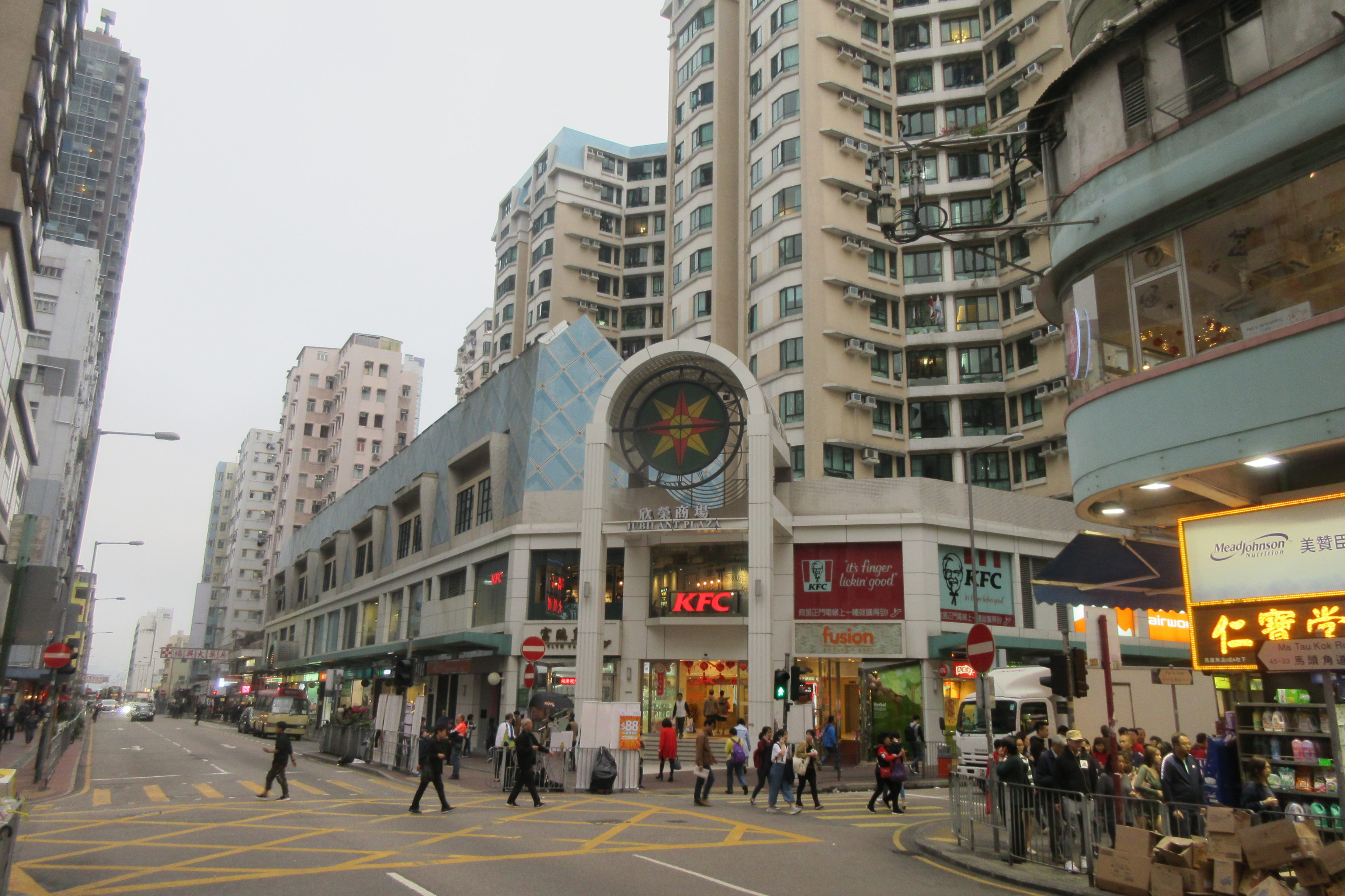 HK 九龍城 Kln City 馬頭角道 Ma Tau Kok Road February 2019